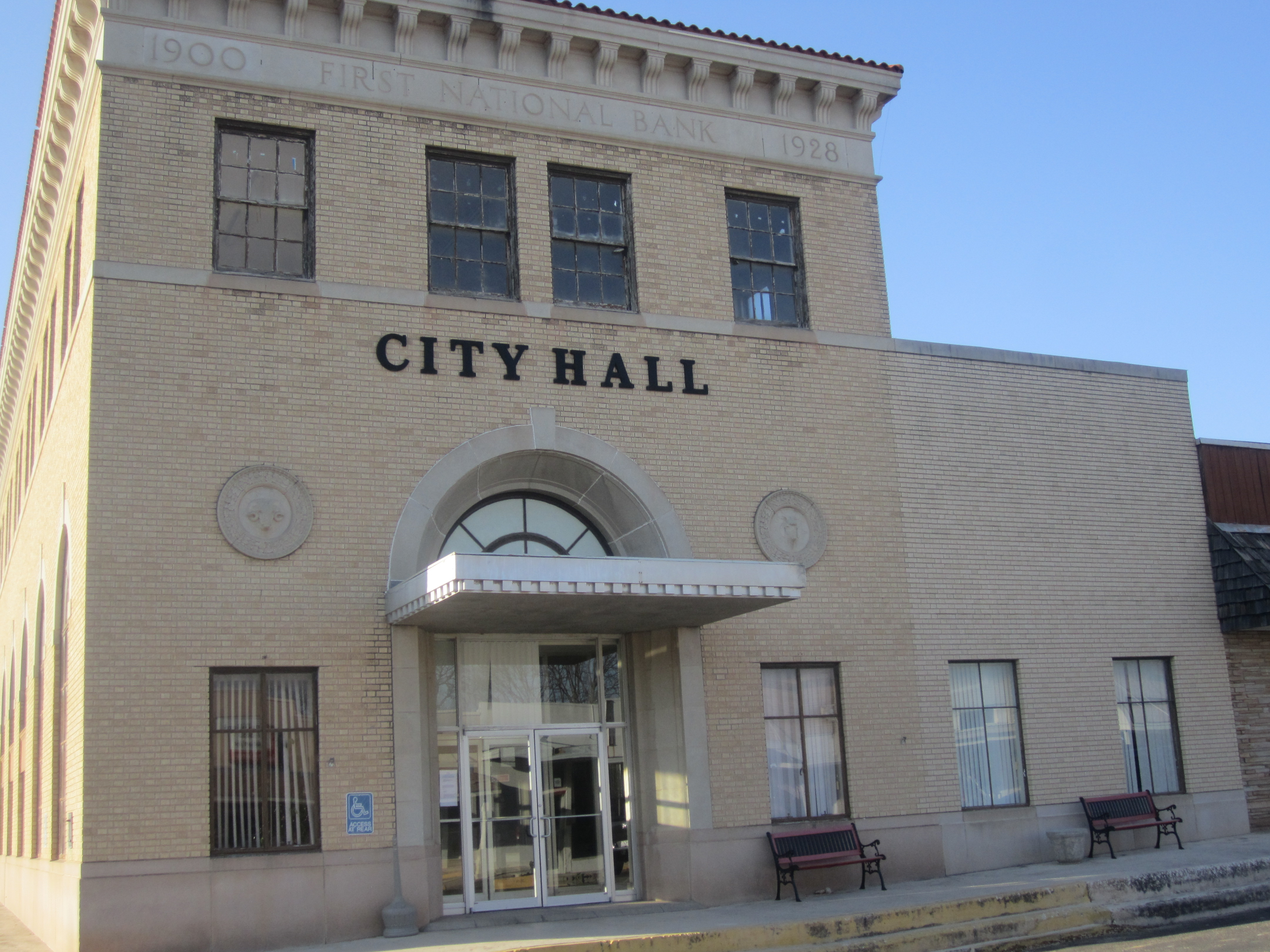 I took photo with Canon camera in Sonora, TX.